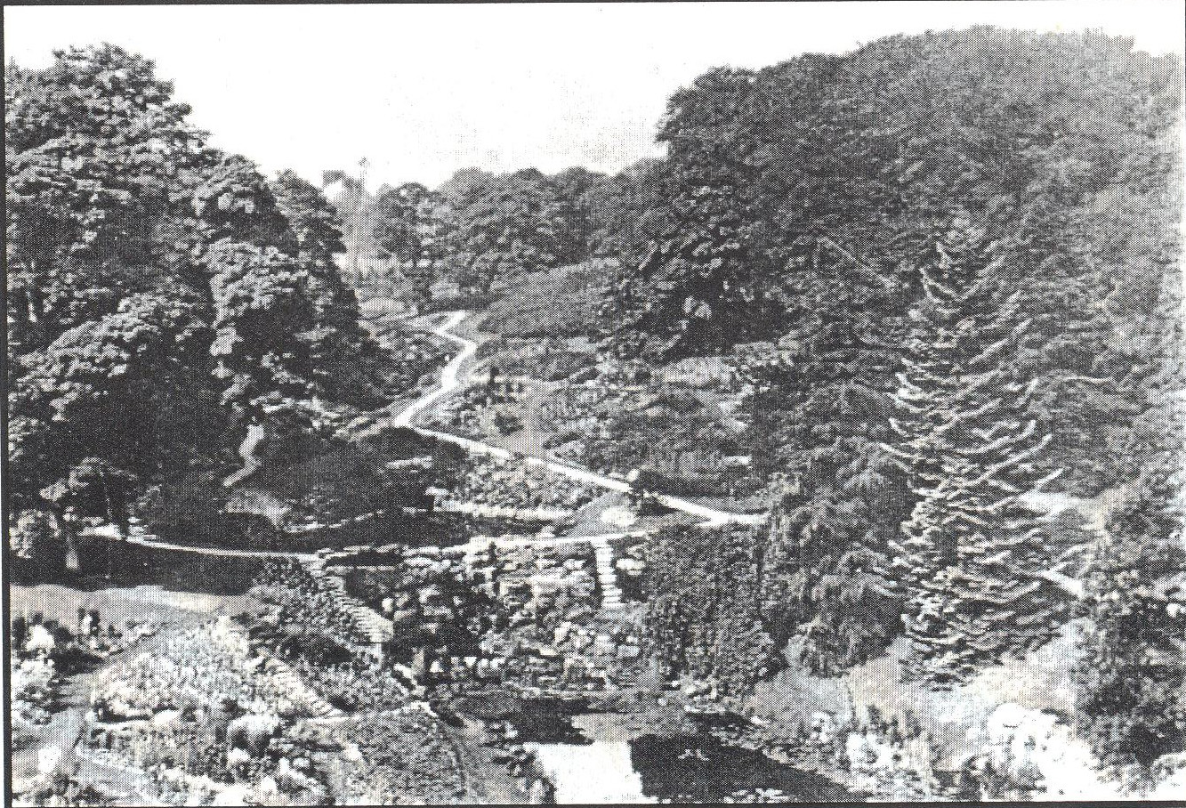 The gardens at Beaudesert, centre foreground part of large lily pond, waterfall and bridge.